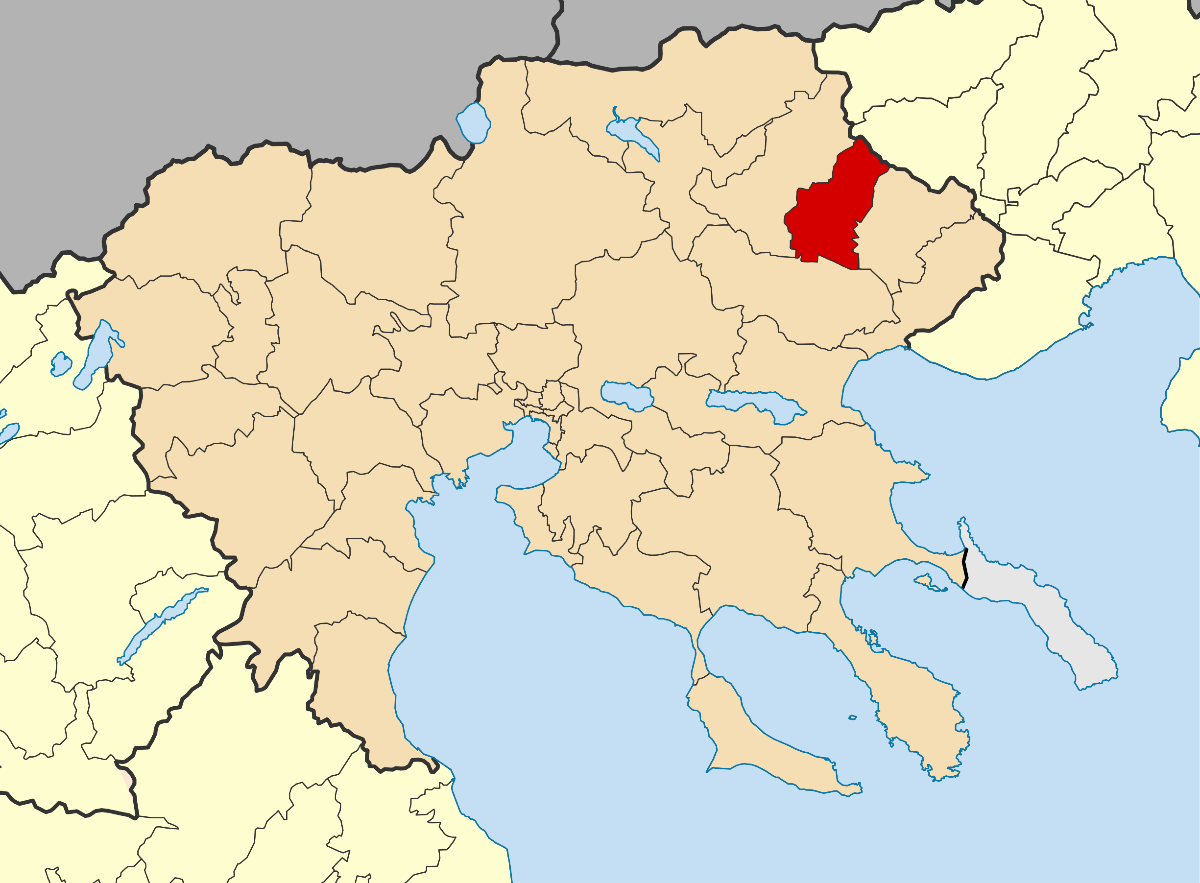 Locator map for Emmanouil Pappas municipality in Greek region Central Macedonia (2011)